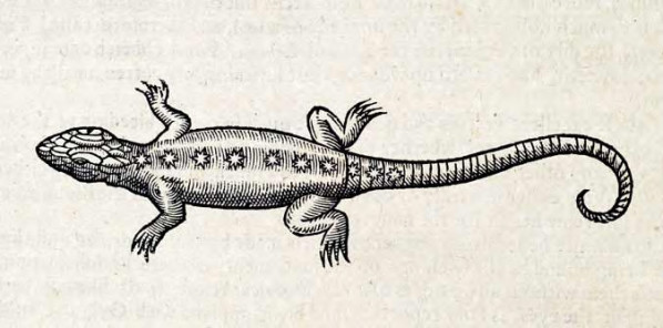 This woodcut is an illustration from the book The history of four-footed beasts and serpents by Edward Topsell, printed by E. Cotes for G. Sawbridge, T. Williams and T. Johnson in London in 1658.